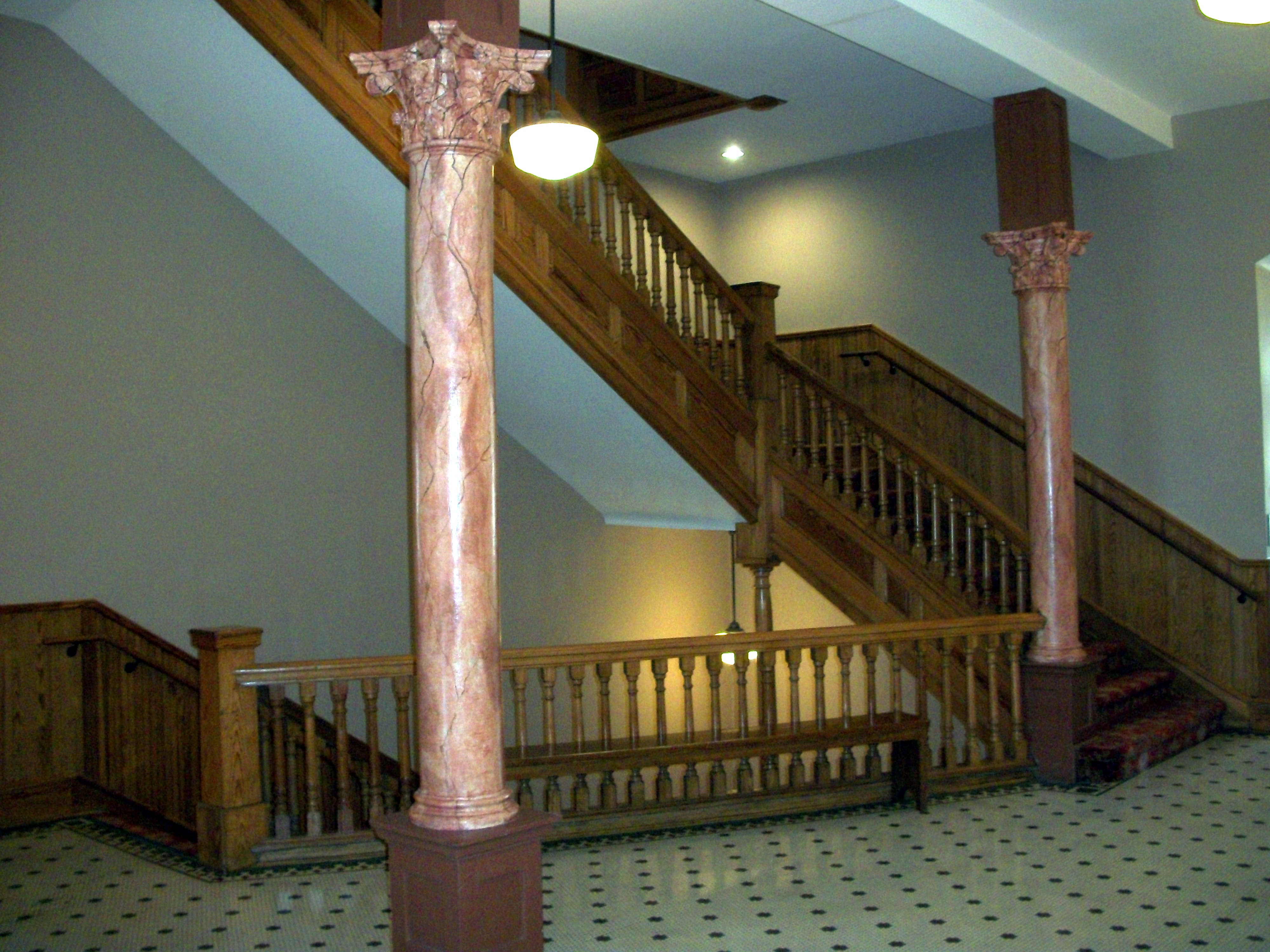 Stairs and columns of the stately historic Washington County Courthouse in Fayetteville, Arkansas. This is on the main floor.